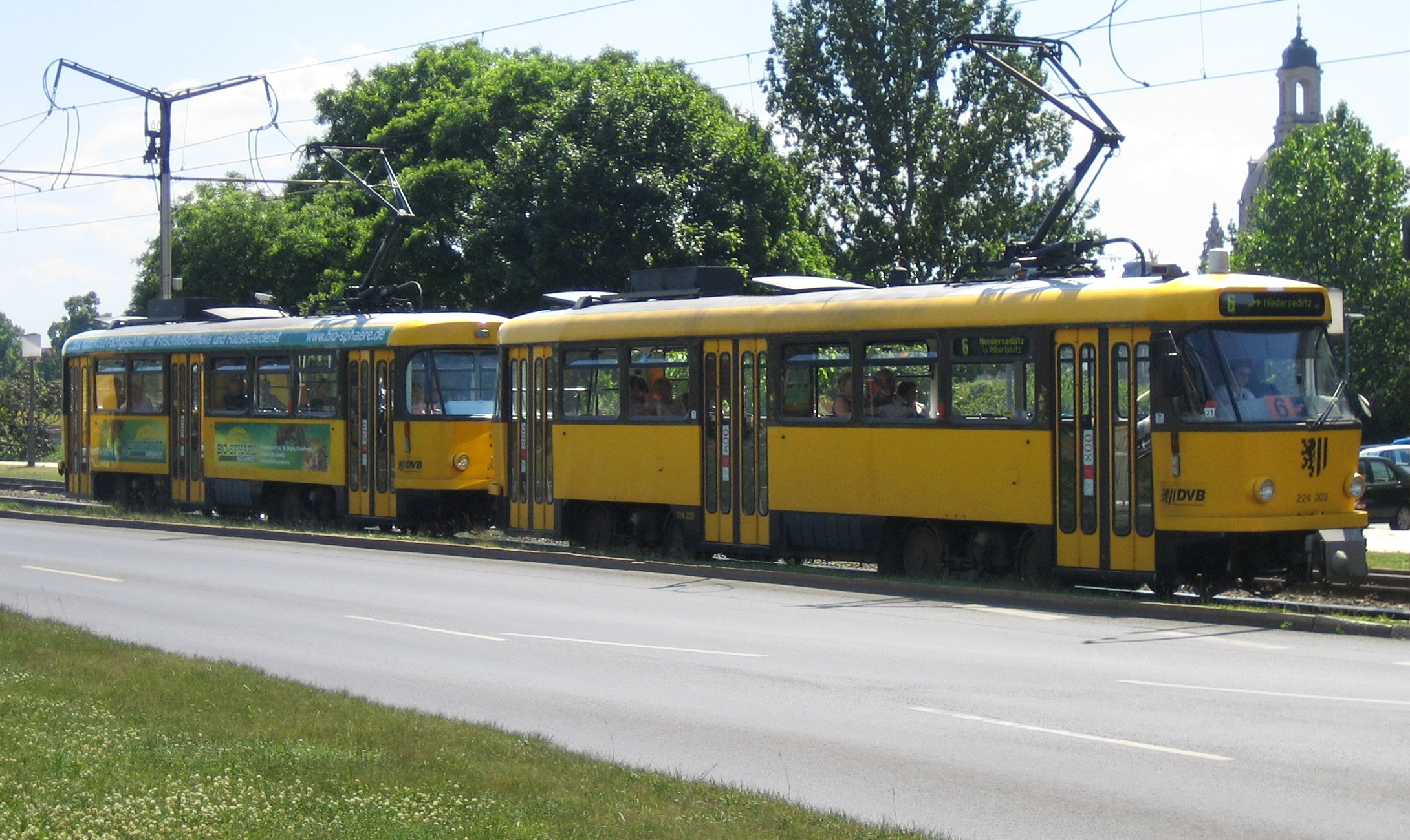 modernised Tatra T4D of the Dresden Public Transport (T4D-MT + TB4D) at Line 6 to Dresden-Niedersedlitz, near the Carola Bridge